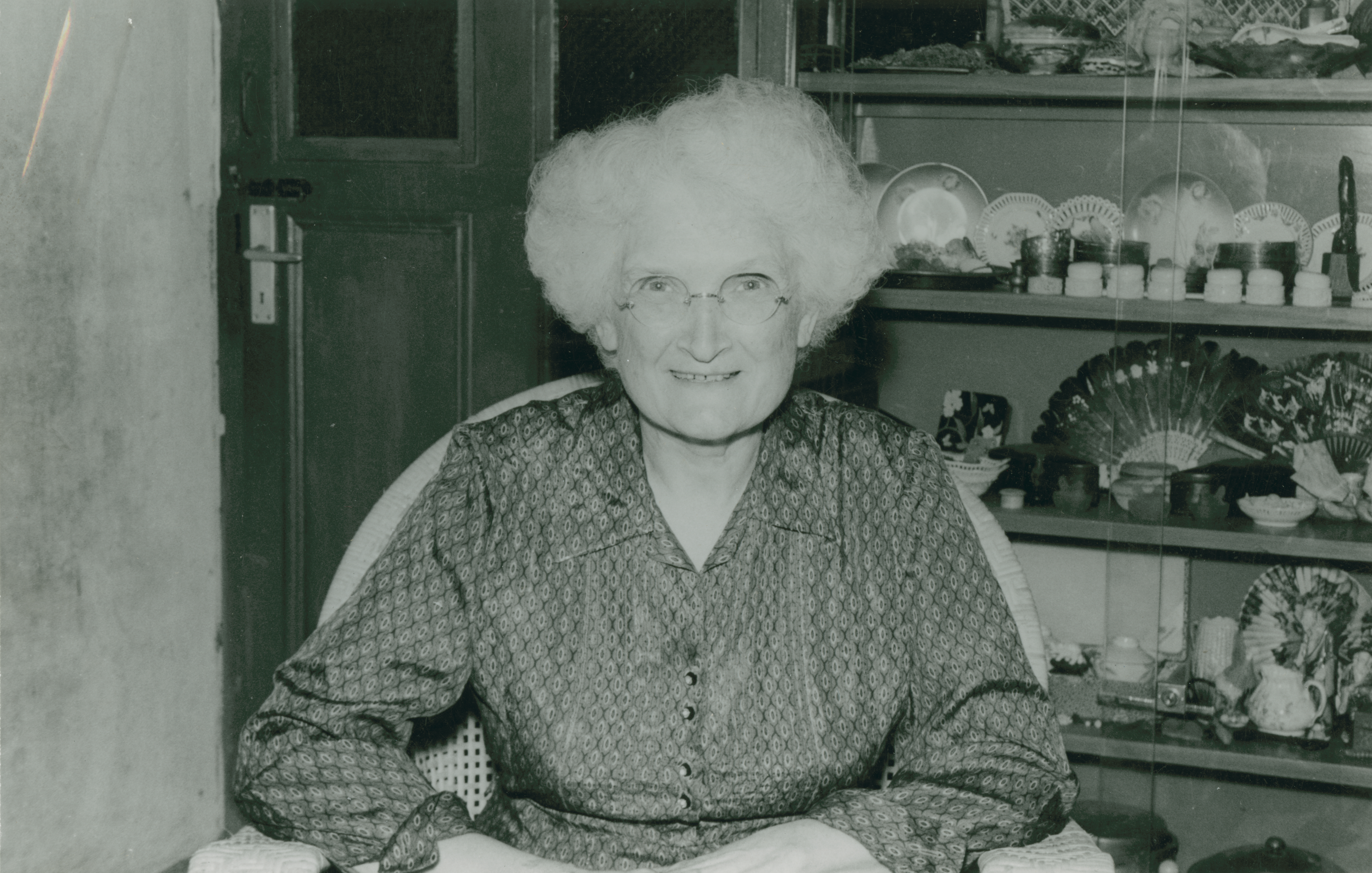 This image depicts Christian Missionary Elizabeth C. Bernard.